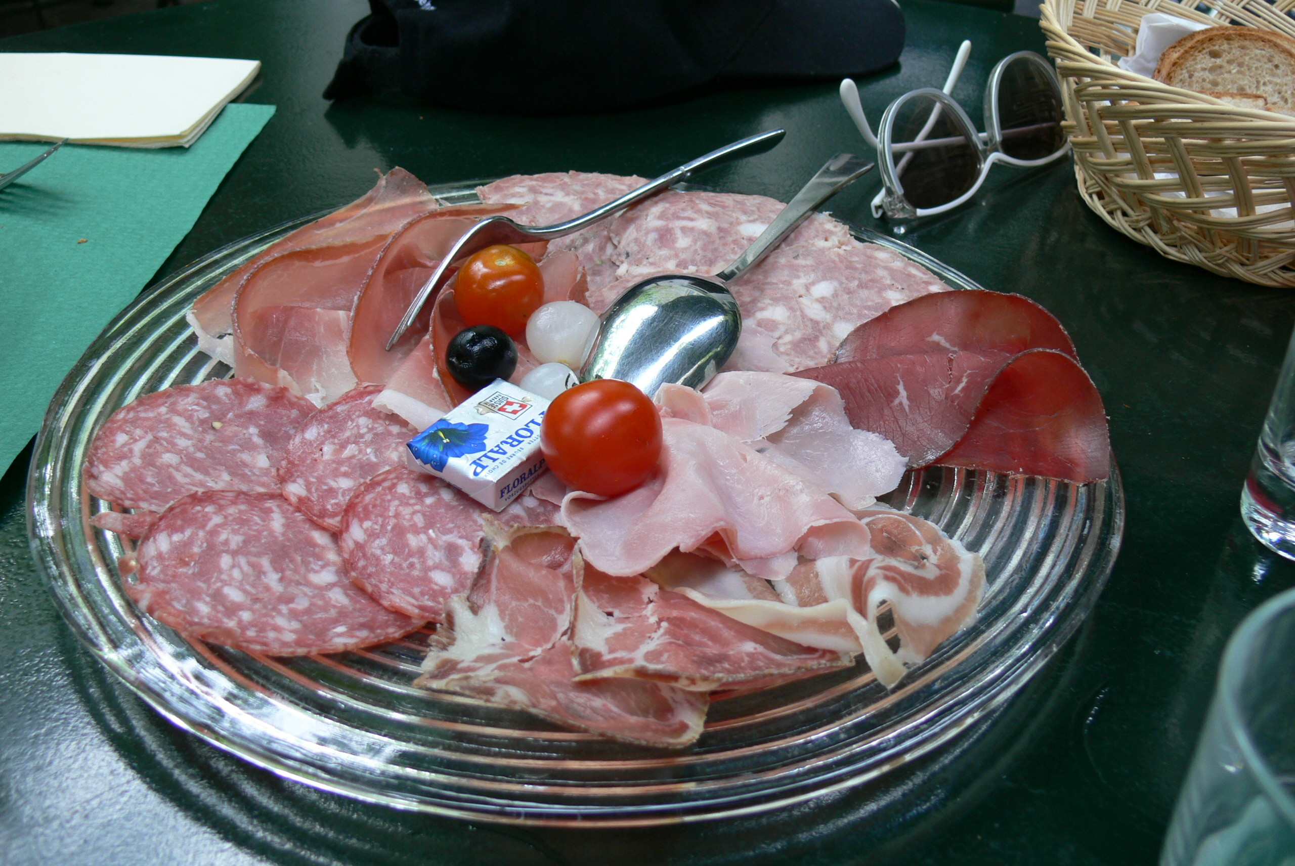 Bordei ( Palagnedra / Locarno ). Swiss cold cut at the local restaurant.